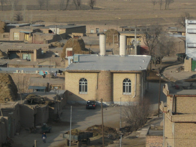 Qez Qaleh, Khoy is located on character. Iran's West Azarbaijan functions.